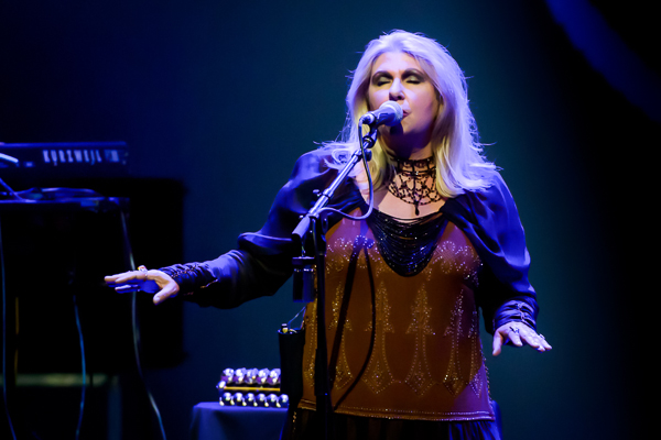 Vocalist Annie Haslam of symphonic progressive rock band Renaissance headlining 2012 North East Art Rock Festival (NEARfest) on June 23 2012